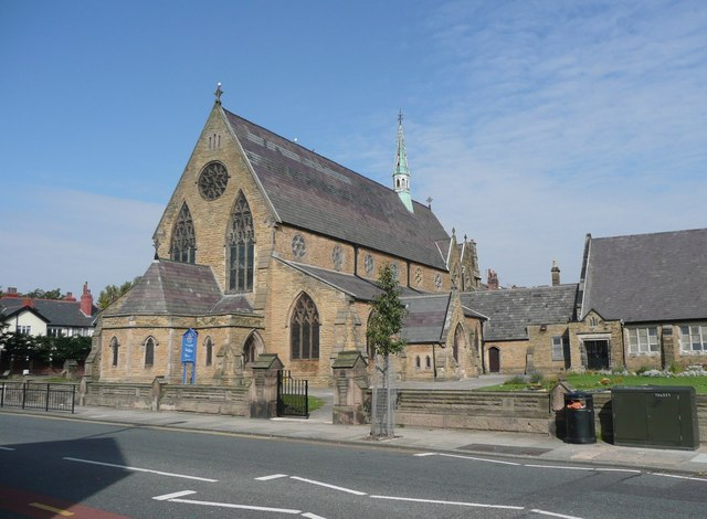 Parish church of St Nicholas, Bridge Road, Blundellsands, Merseyside, seen from the south. The church hall is partly visible on the right. The church was consecrated in 1874. The parish was created in 1875 from part of Great Crosby parish.